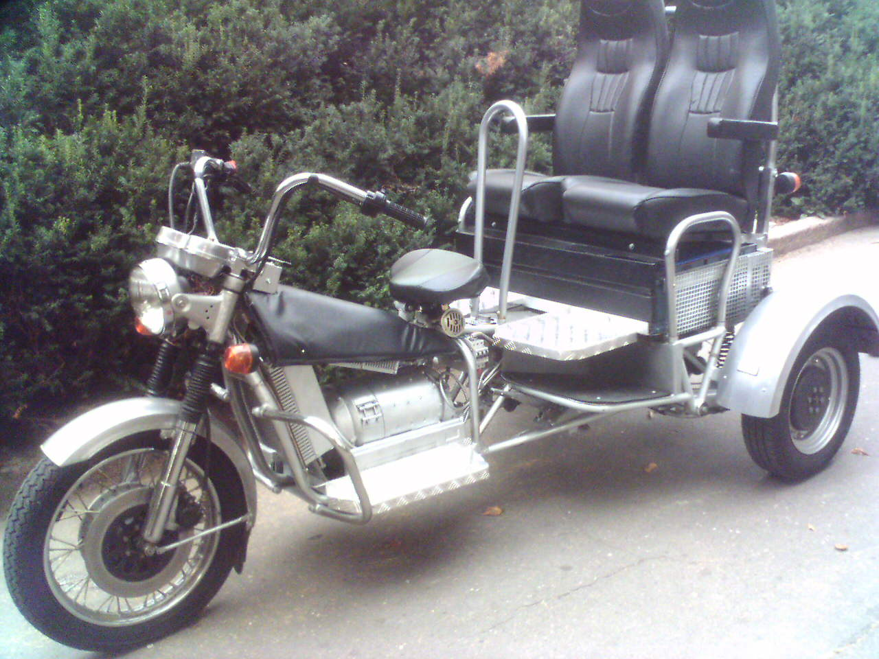 Electrocycle prototype developed by ukrainian Research and Manufacturing enterprises. Photo taken by a cameraphone.